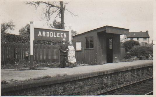 Arddleen Railway Station (Halt) with passengers taken around 1958